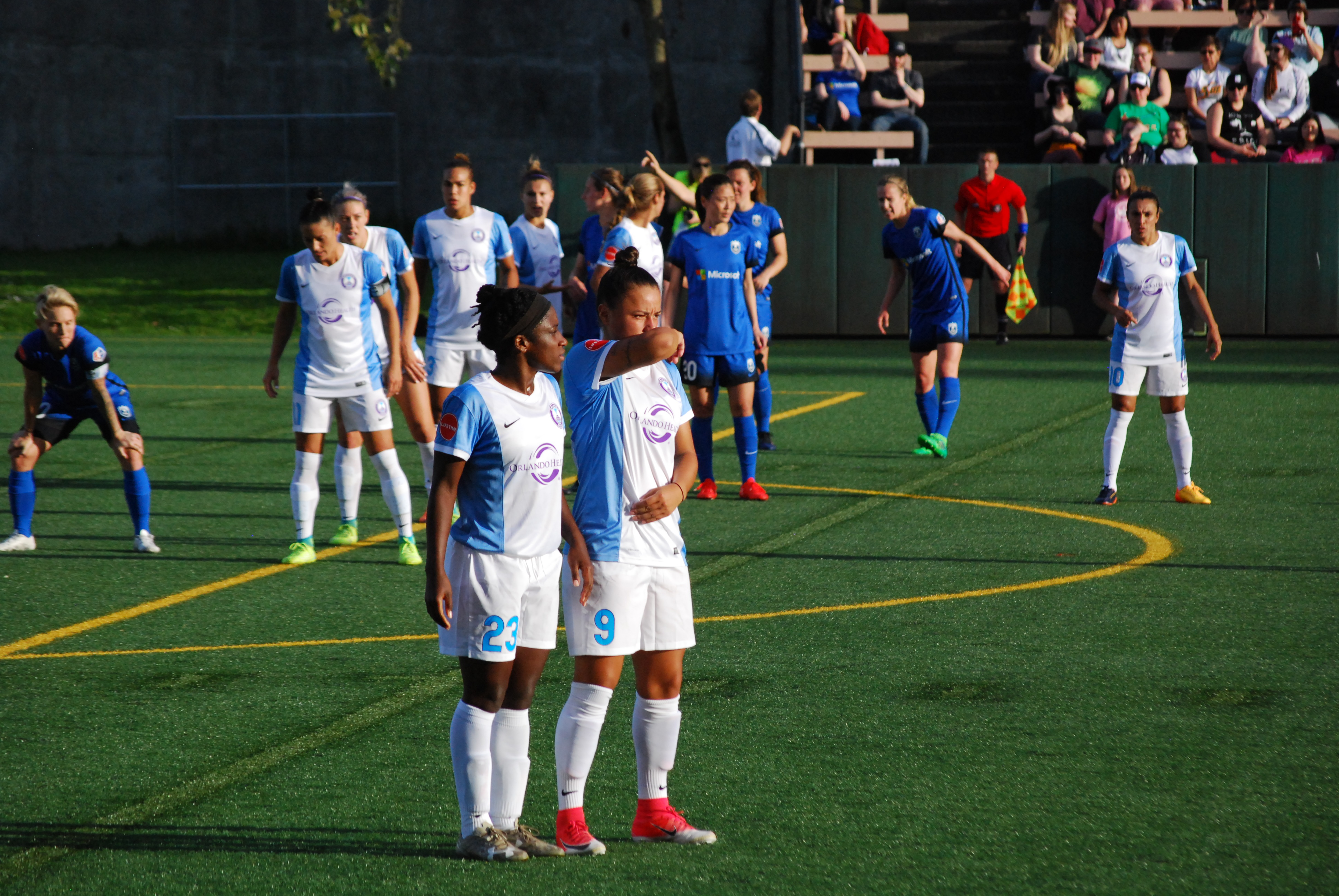 Seattle Reign vs Orlando Pride, May 21, 2017